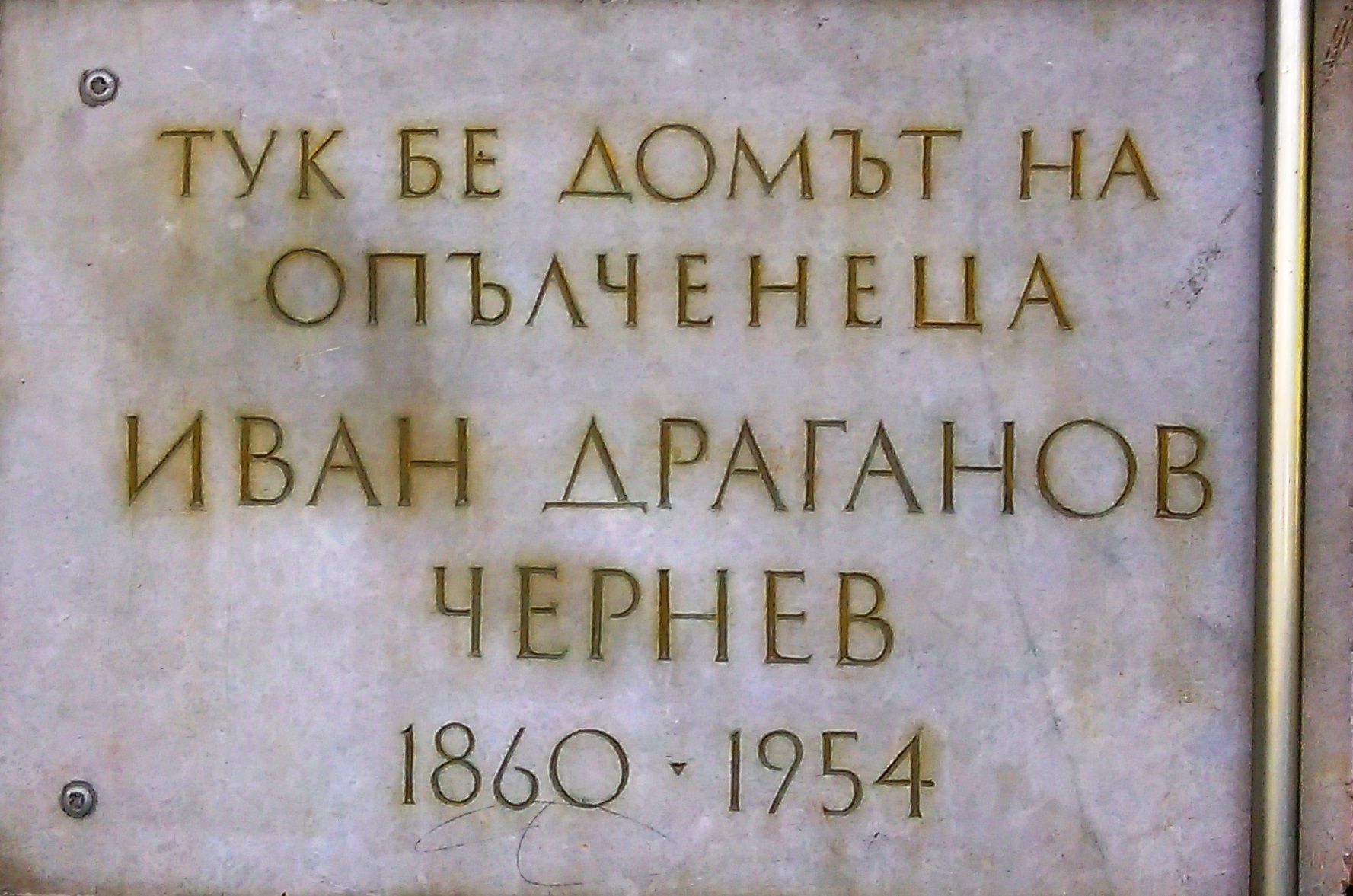 A memorial plaque to the late residence of bulgarian volunteer militiaman Ivan Dreganov Chernev, Varna